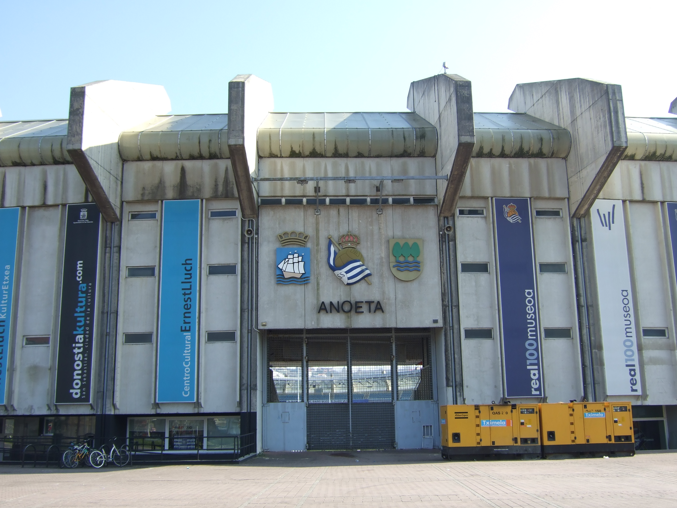 Facade of the Anoeta Stadium, showing a door and three coats of arms